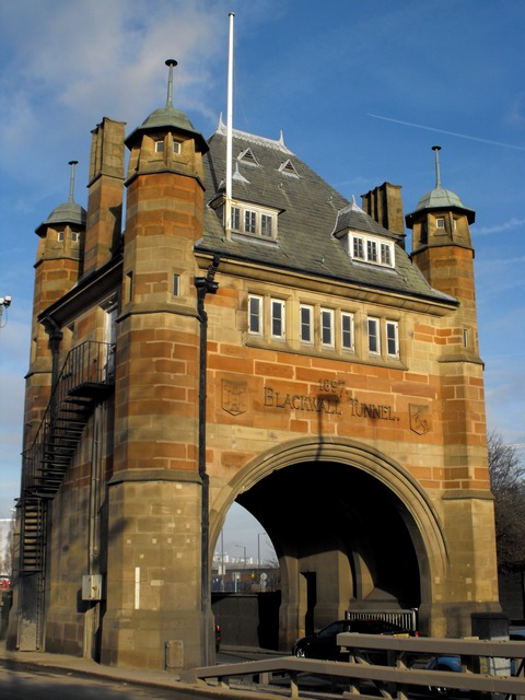 gateway to the Blackwall Tunnel SE10 The gateway to the southern entrance to the Blackwall Tunnel (since 1967 the northbound bore) lies about 100 yards before the tunnel entrance itself.